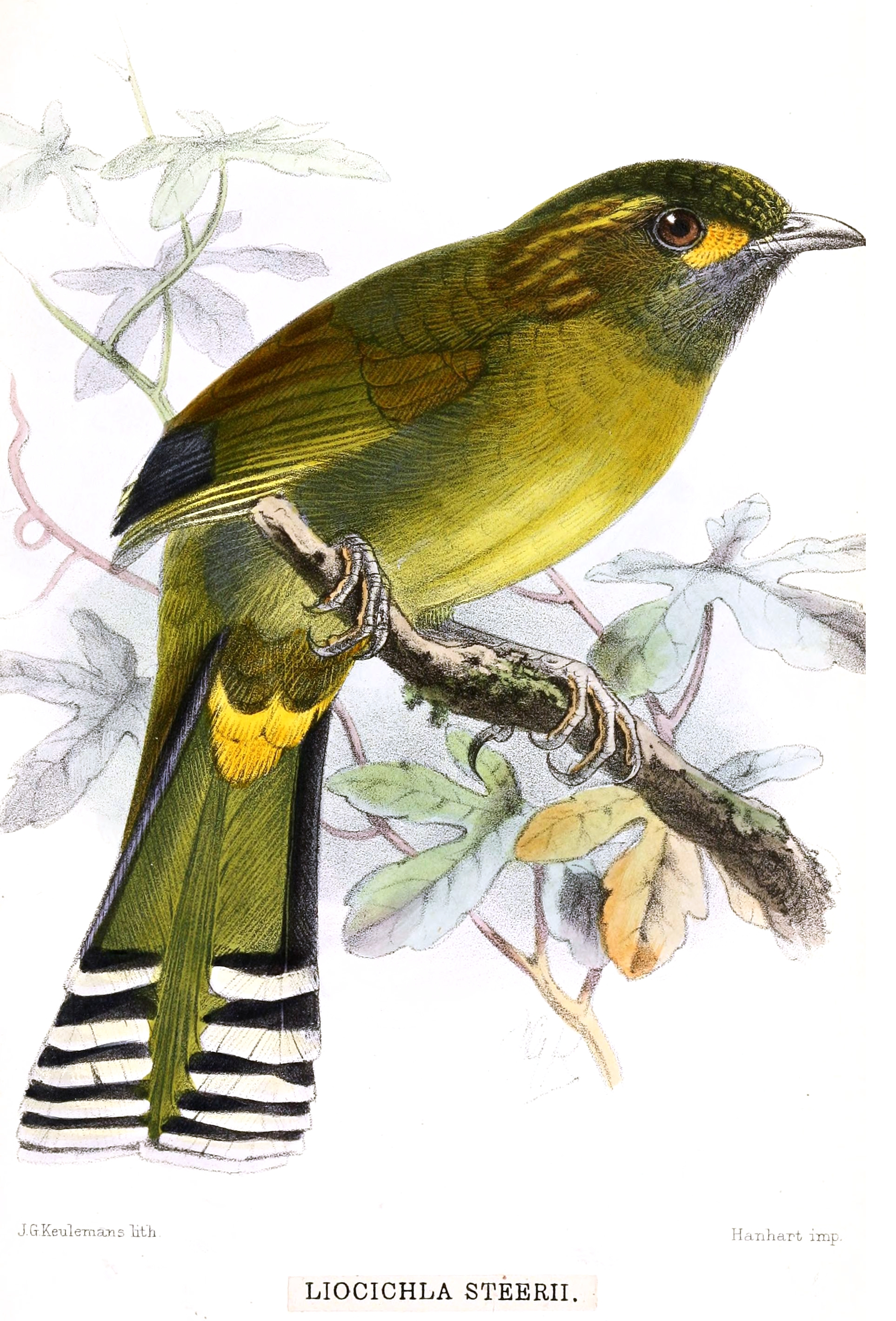 « Liocichla steerii » = Liocichla steerii (Steere's Liocichla)